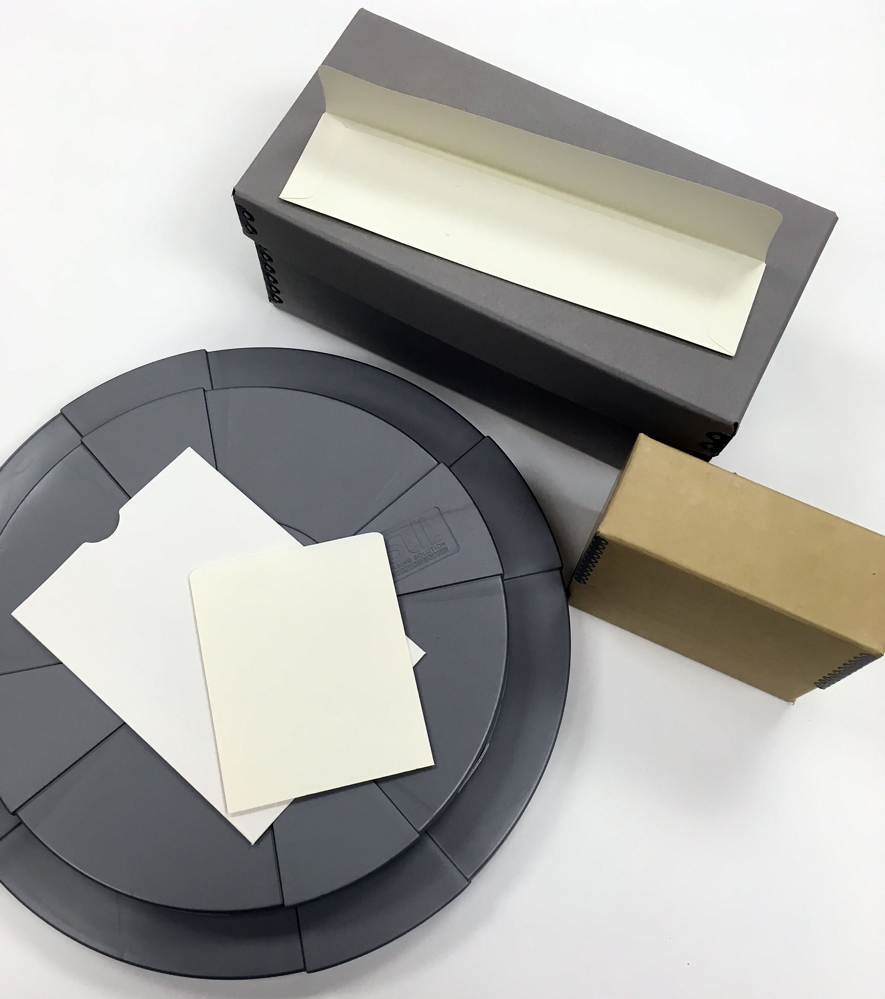 Archival housing enclosures for film-based materials